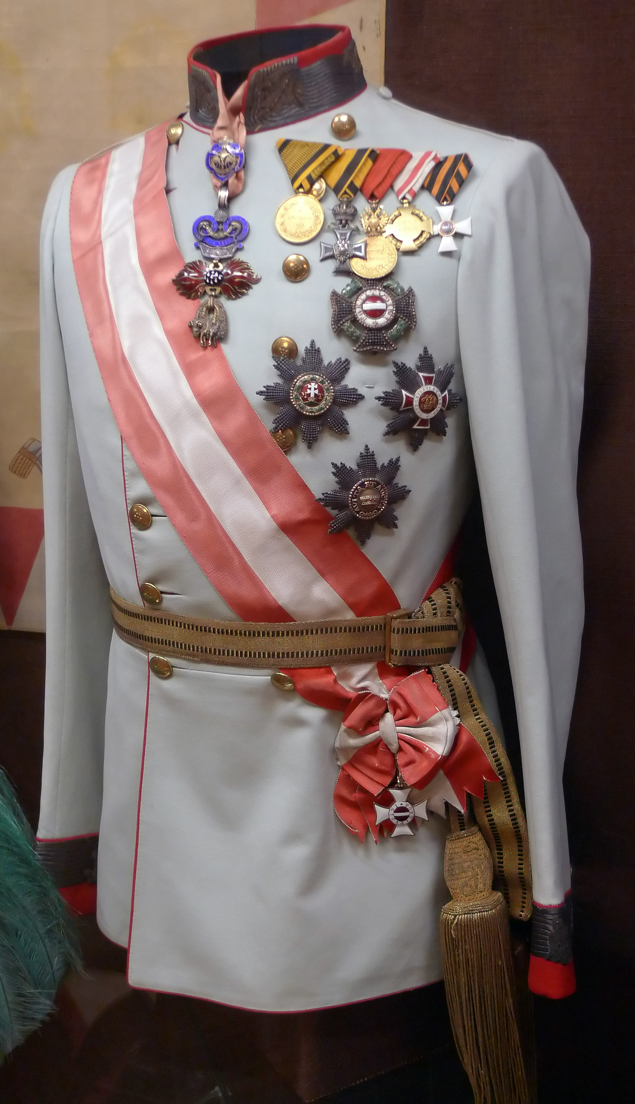 Dress uniform of Emperor Franz Joseph I of Austria as field marshal. Heeresgeschichtliches Museum Wien.